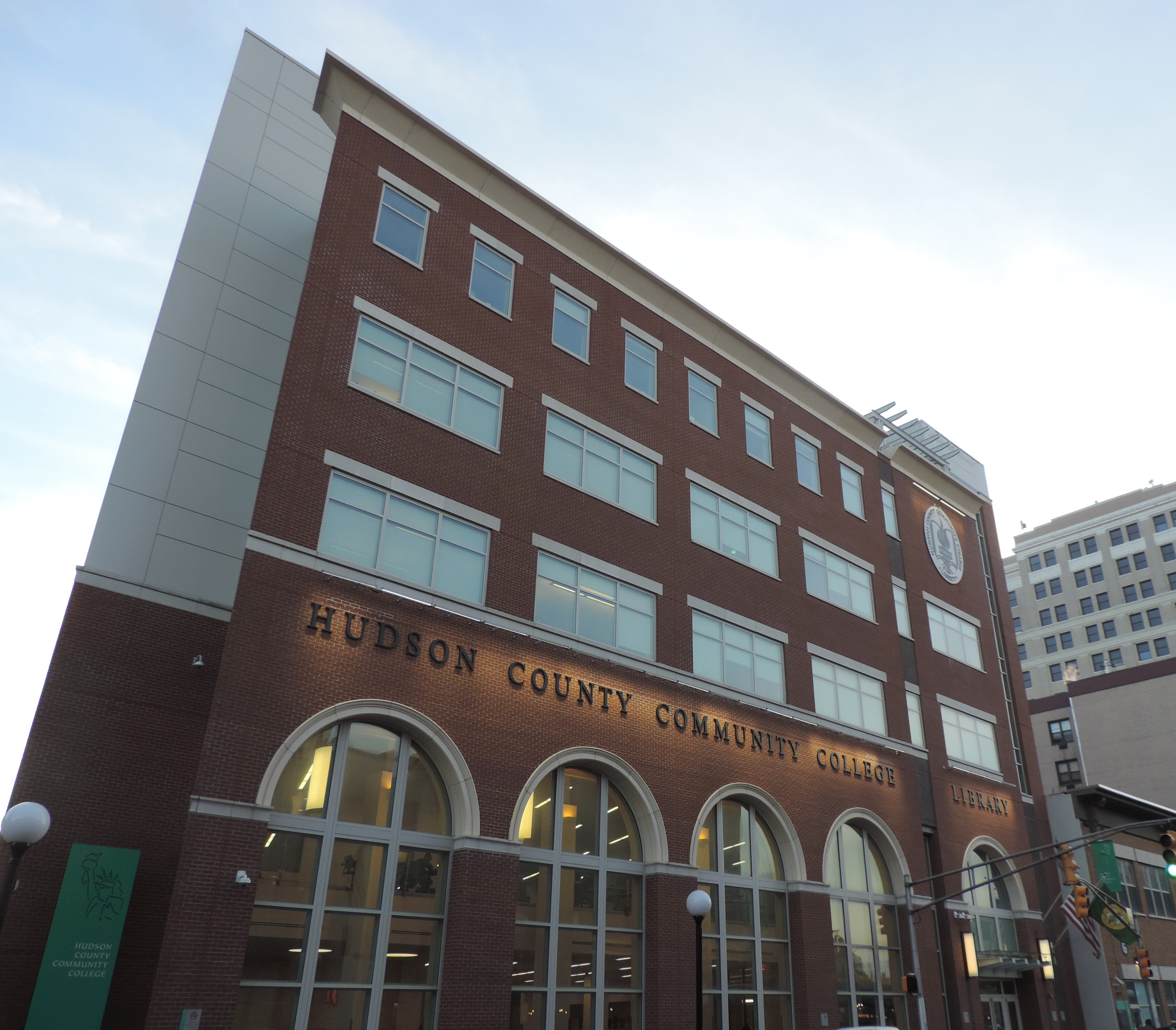 Looking southwest across Sipp Avenue at Hudson County Community College Library near dusk of a mostly sunny day